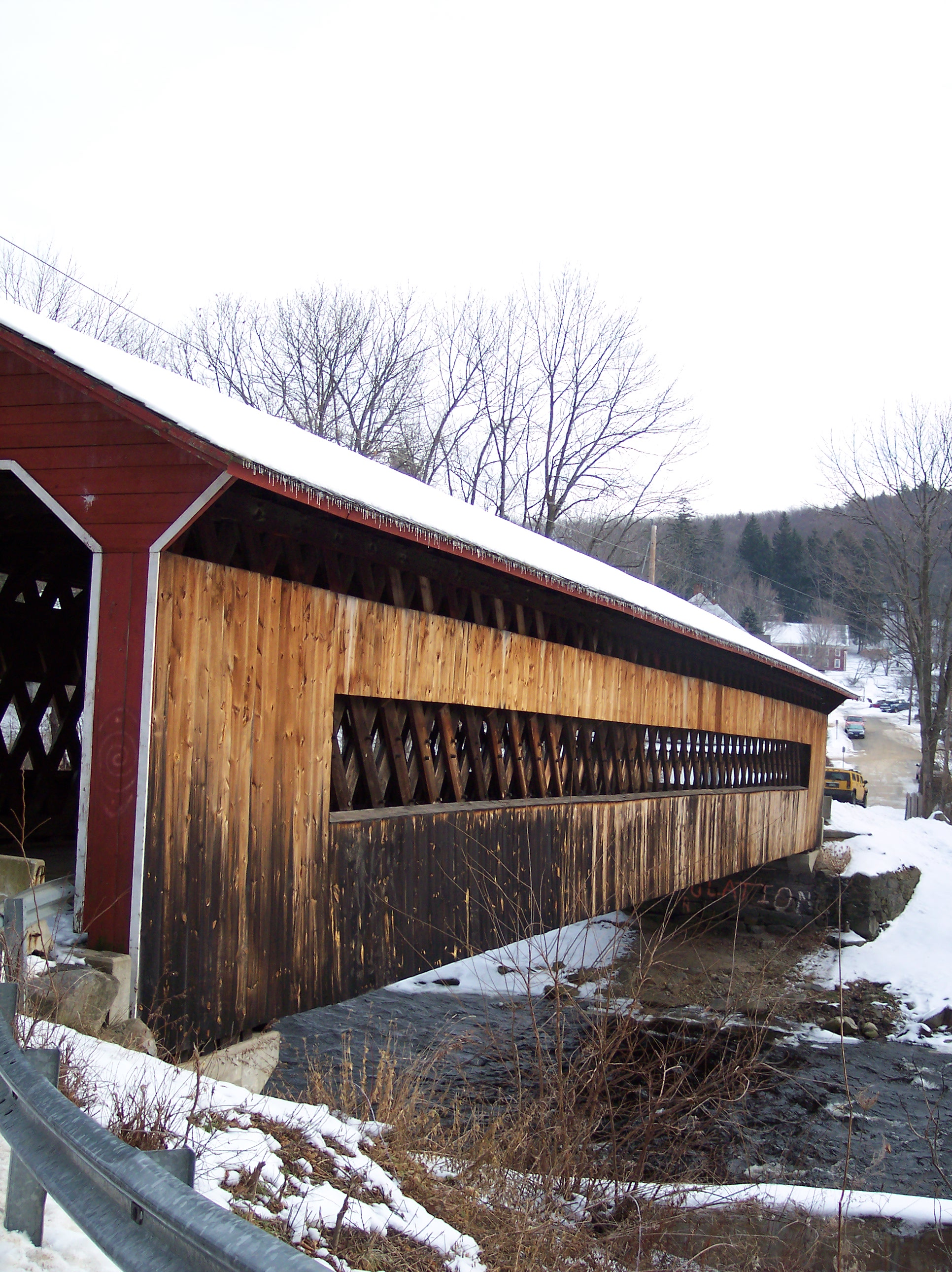 Covered Bridge over the Ware River in Gilbertville, Massachusetts